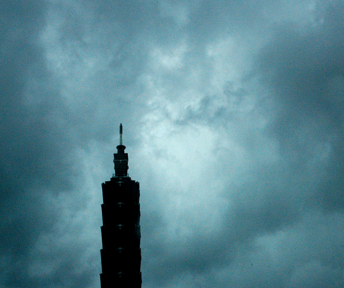 Taipei 101 endures a typhoon in autumn 2005. Taipei, Taiwan. (Alton Thompson) Alton 15:06, 30 August 2007 (UTC)